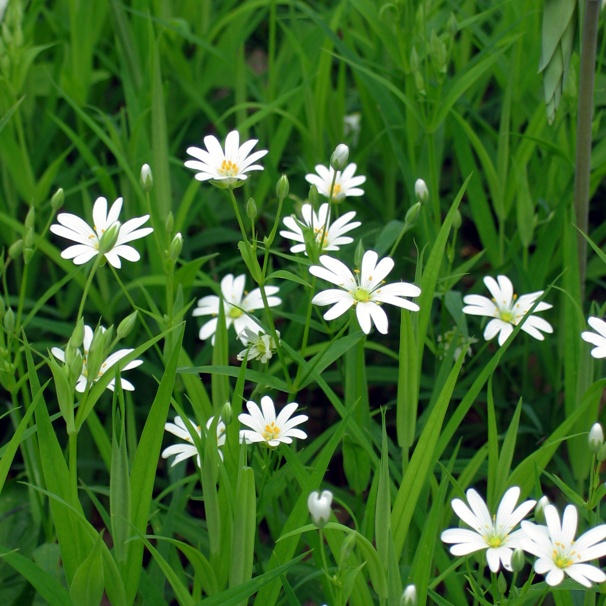 Addersmeat (Stellaria holostea) in Bielany-Tyniec Landscape Park, Cracow, Poland.